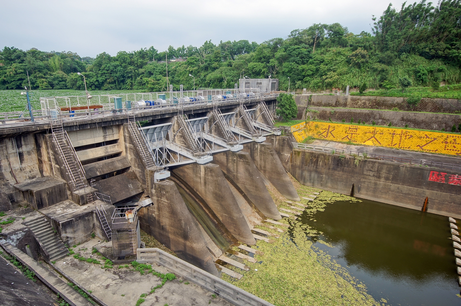 Tai Po Reservoir, Hsinchu, Taiwan